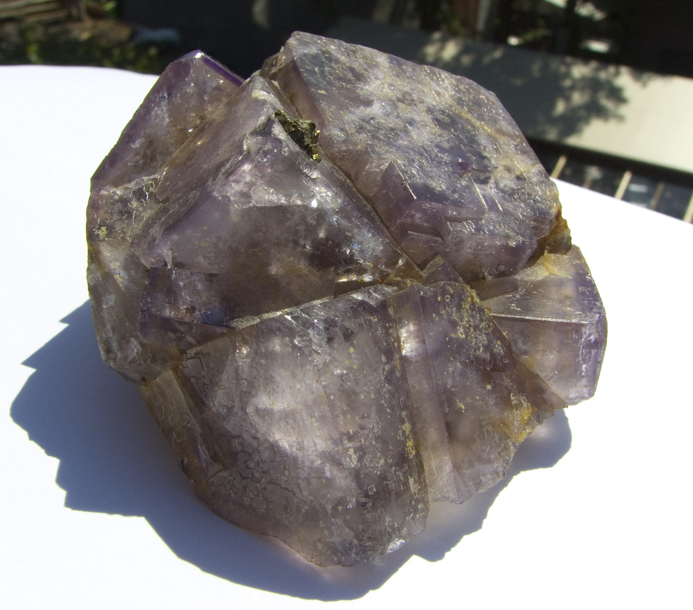 Fluorite with Pyrite, (Crystal courtesy of User:chaosdna)